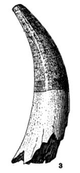 Tooth of Thecachampsa sericodon (=Thecachampsa antiqua) collected from Clifton Beach, Maryland. Printed in Eocene, Volume 1 by the Maryland Geological Survey, William Bullock Clark (1901).